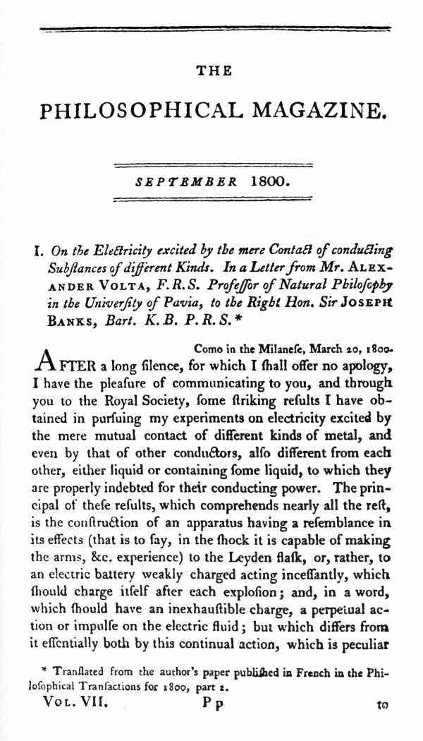 first page of Volta dissertation on electricity